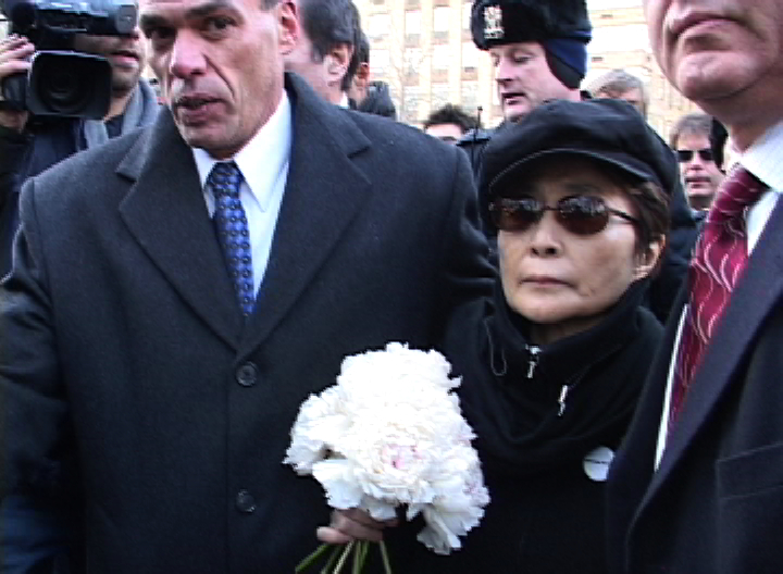 Yoko Ono delivers flowers to John Lennon's memorial, Stawberry Fields, Central Park, NYC. Captured by Rocketboom.